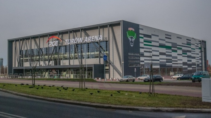 Sport arena in Zgorzelec (late 2014)